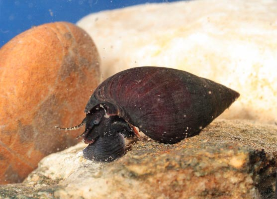 Melanopsis praemorsa buccinoidea, Megalopotamos at Preveli, Crete